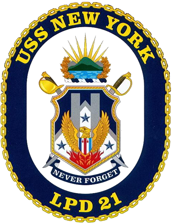 Coat of Arms of the USS New York (LPD-21).